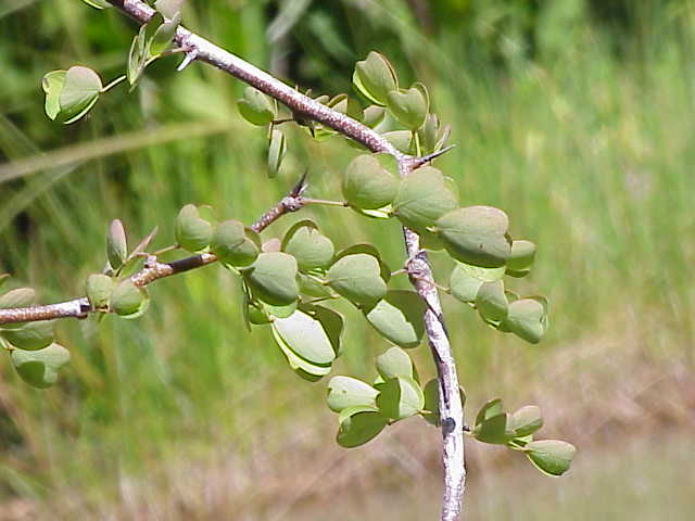 Species: Haematoxylon campechianum Family: Fabaceae Image No. 1